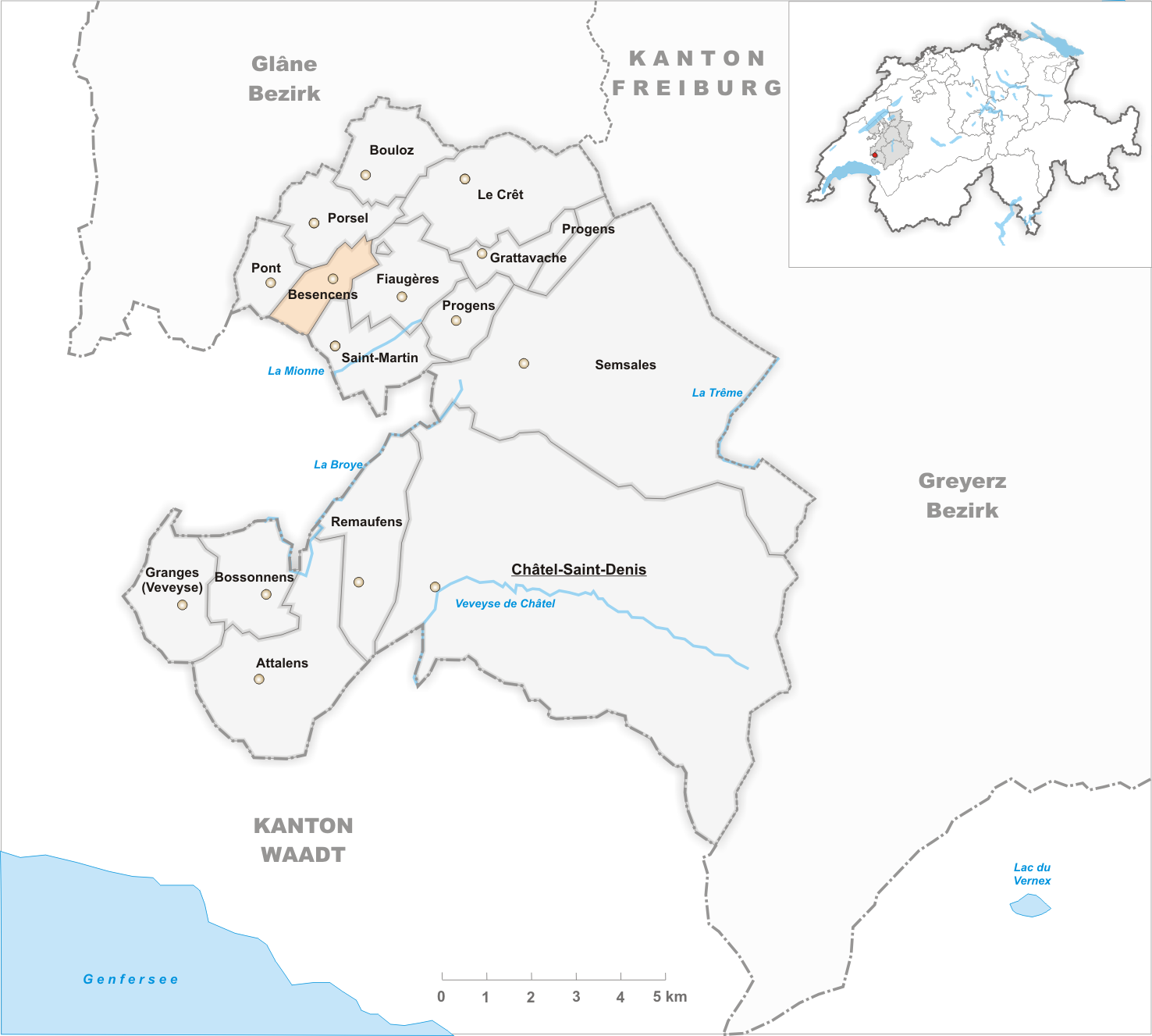 Municipality Besencens Artist: Tschubby